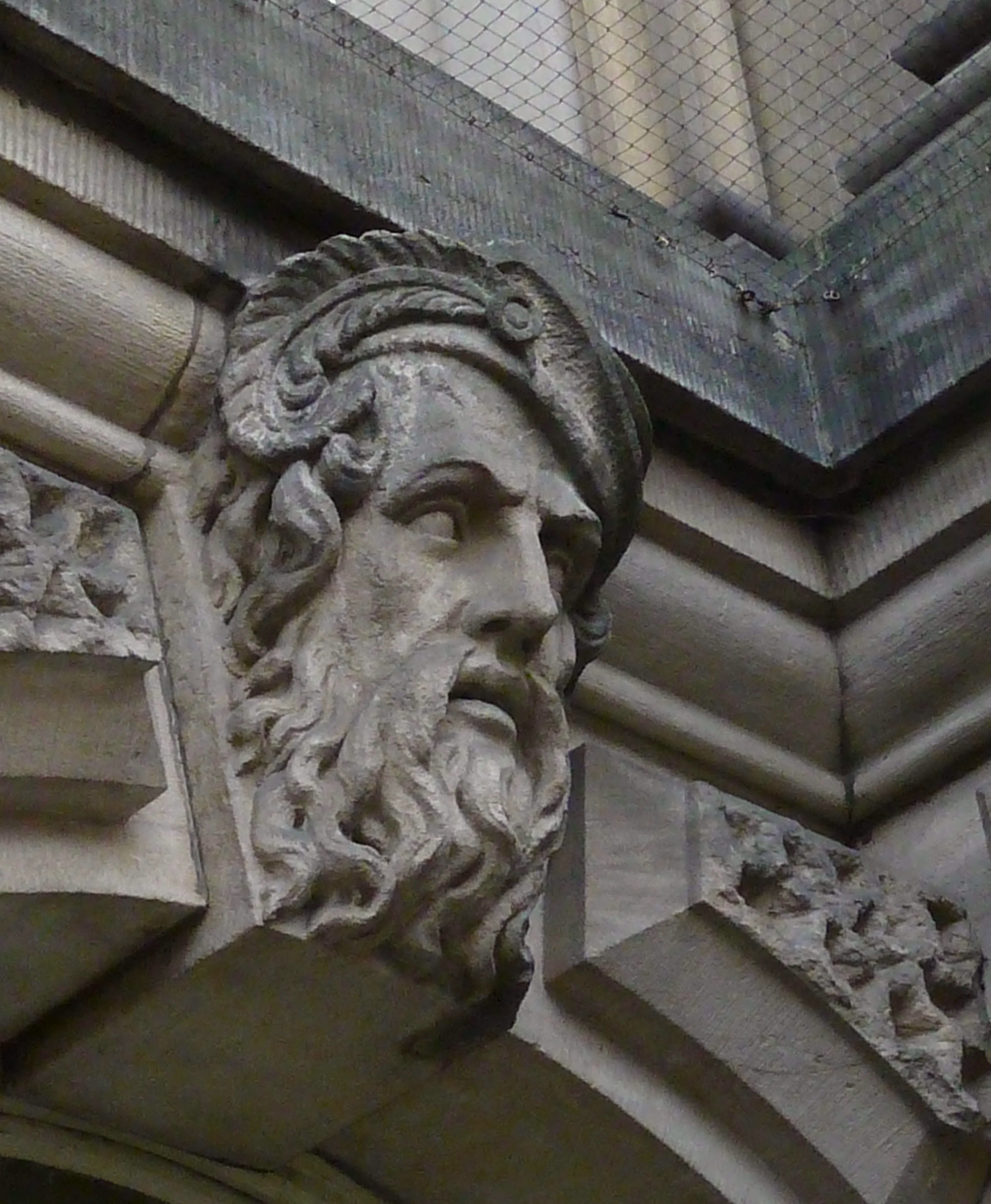 Town Hall, Leeds, West Yorkshire, England. Designed by Cuthbert Brodrick, built 1853-1858. The tympanum of the front door was sculpted by Thomas of London. The exterior of the building has a number of architectural carvings by Robert and Catherine Mawer, although Catherine was credited with the work by 1858. The heads were described as masks in the 1850s, but they represent various ancient Greek mythological characters, and are also portraits of contemporary people. This is a portrait of Robert Mawer with a feather in his cap, symbolising the honour of the commission to work on the Town Hall, before he died in 1854.